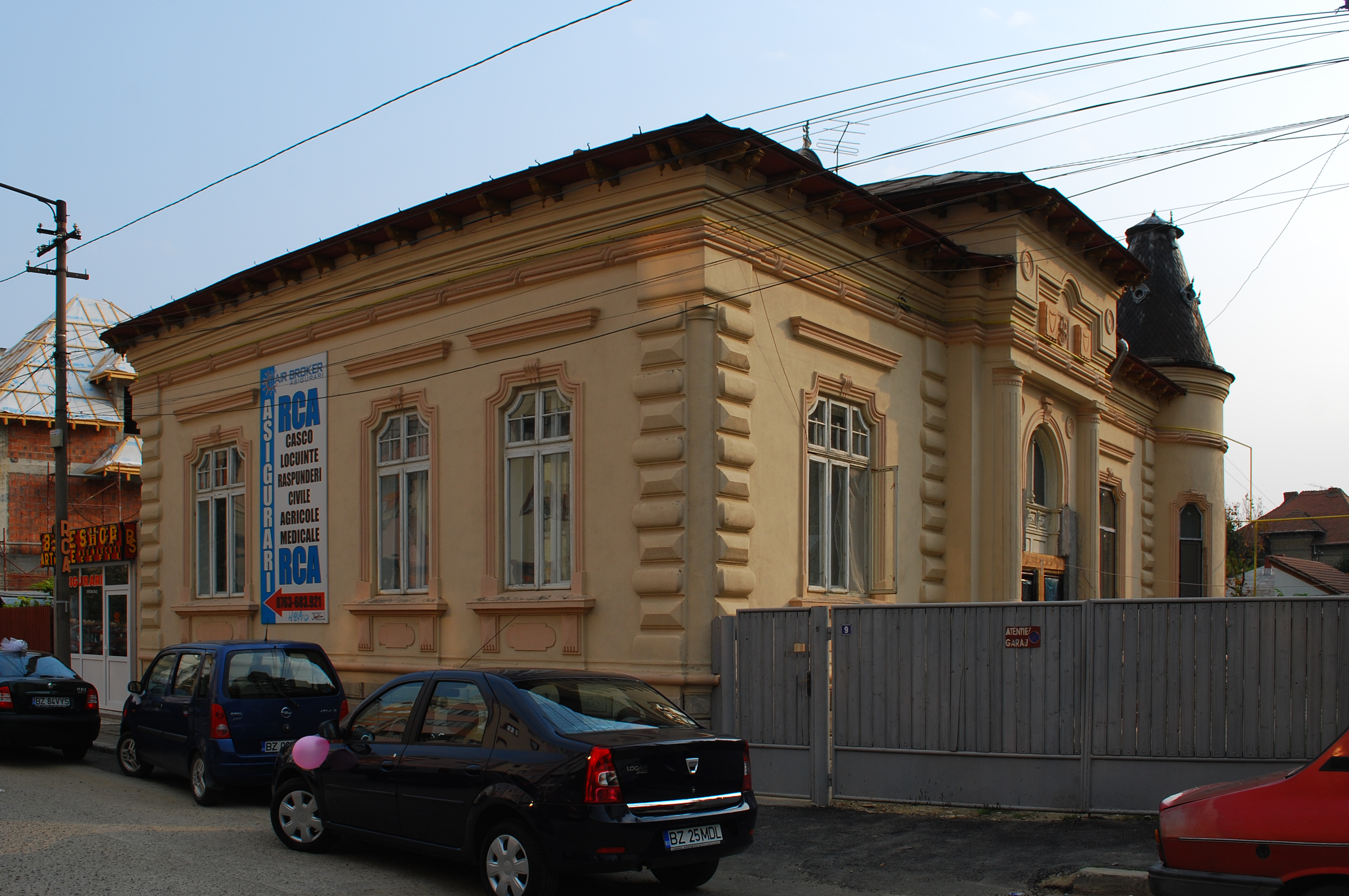 Historical building in Buzău, Romania, on Panduri street 9Română: Clădire istorică în Buzău, România, pe strada Panduri, nr. 9